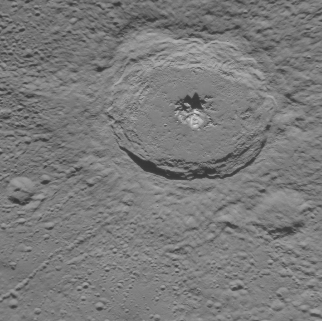 Oblique view of Alencar crater on Mercury. MESSENGER Narrow Angle Camera. North is to the left. Emission Angle: 28.7 Incidence Angle: 75.3 Latitude: -62.8 Longitude: 255.2 Phase Angle: 46.6